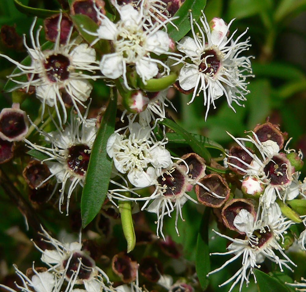 Photo of Leptospermum phylicoides, Burgan, endemic to Australia, at the San Francisco Botanical Garden